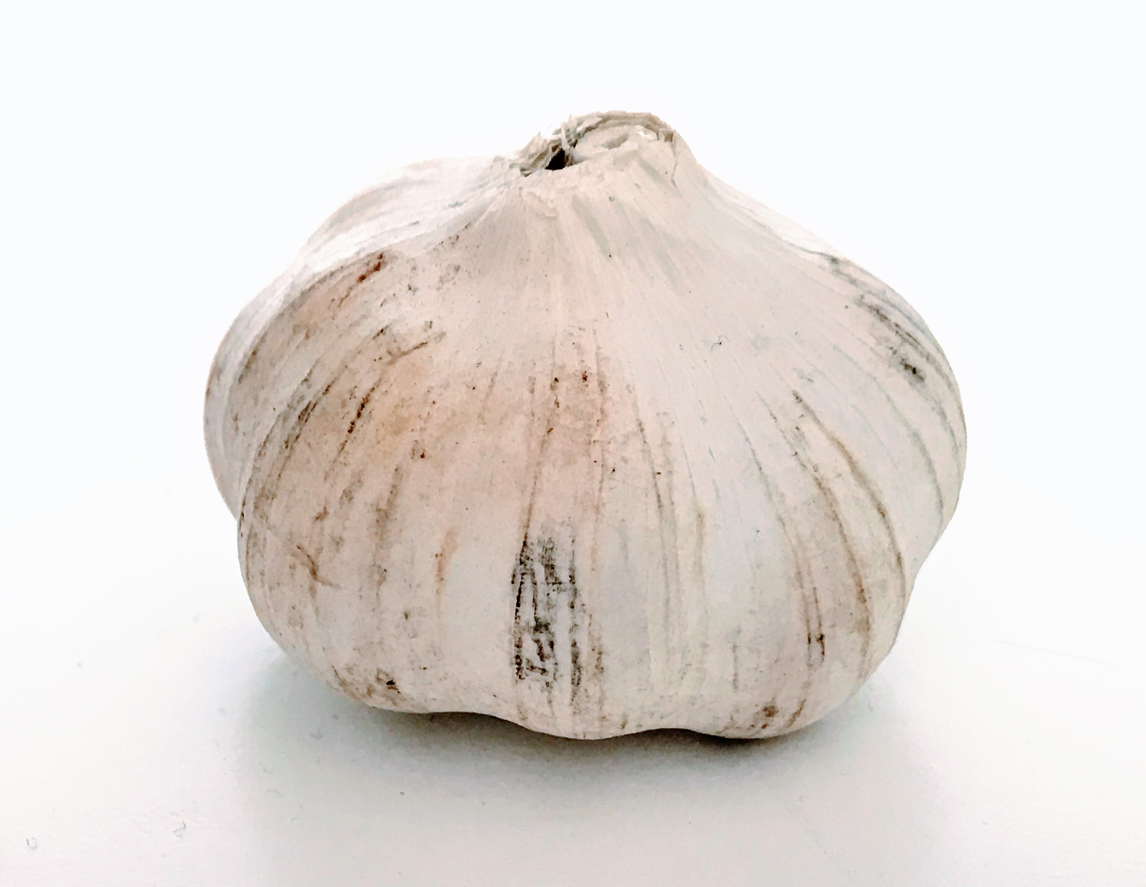 Garlic whole